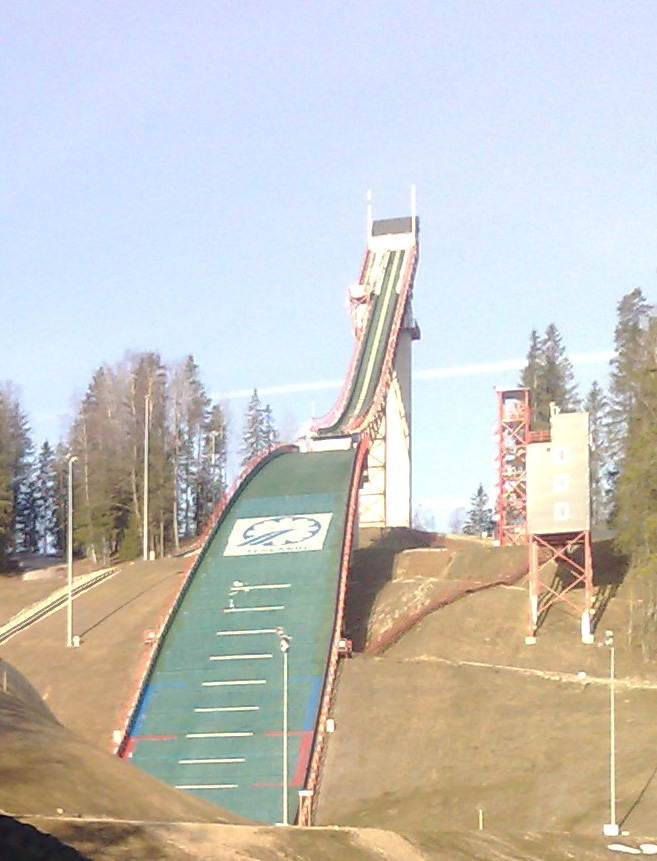 Tehvandi ski jumping hill (K90/HS100) in Otepää, Estonia.